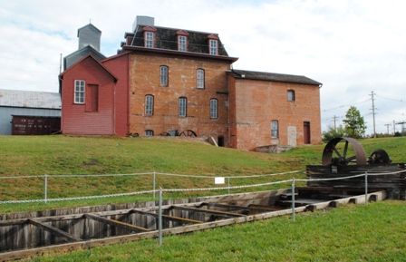 The Neligh Mill was built in 1873, it is the only nineteenth century flour mill in Nebraska with all of its original equipment intact. It is maintained as a museum by the Nebraska State Historical Society.